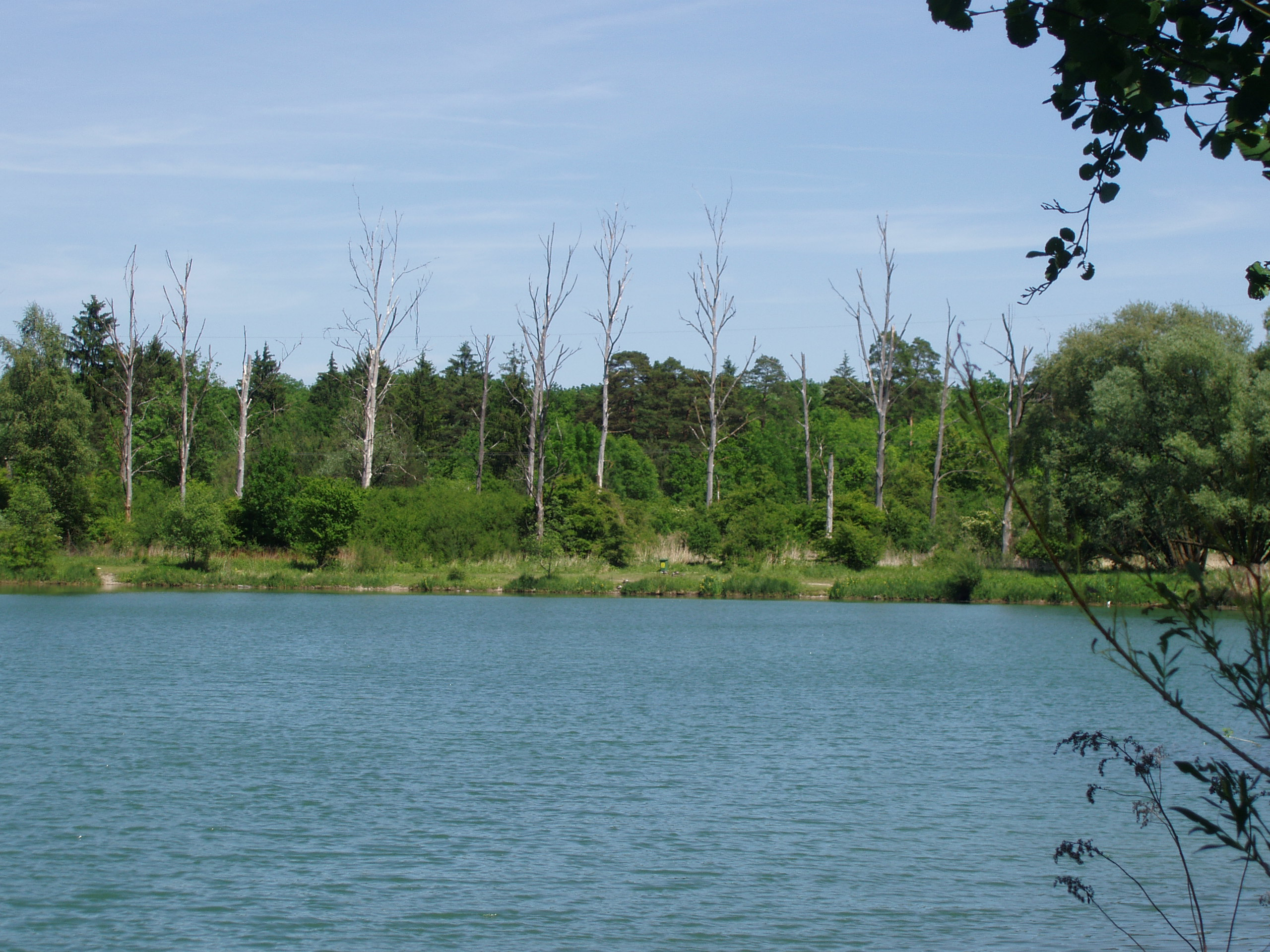 Some dead trees in the landscape protection area "Gerolfinger Eichenwald" Near Ingolstadt, viewn from the other side of a small lake